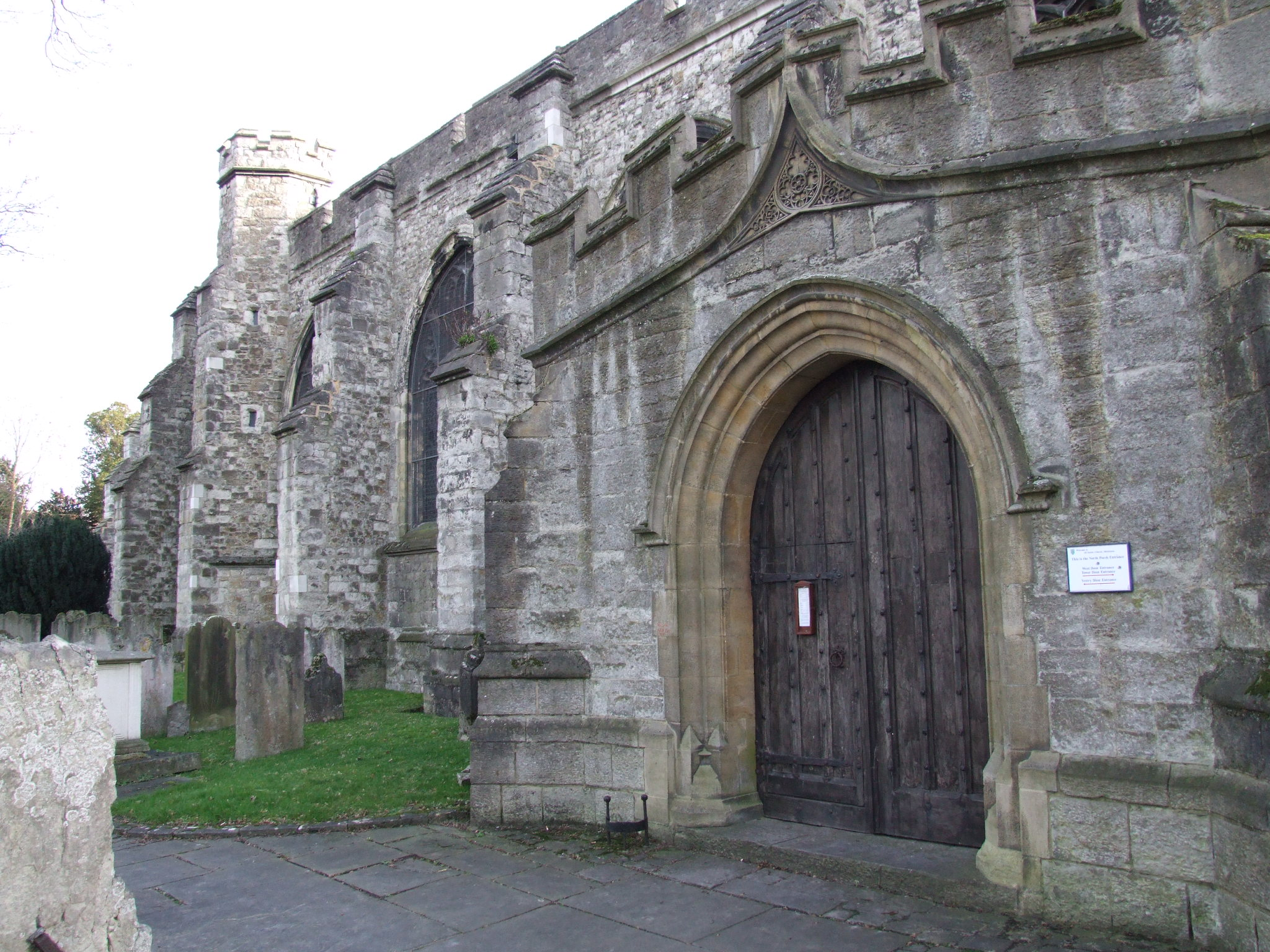 All Saints Church Maidstone, from the Archbishops Palace. Completed 1398.